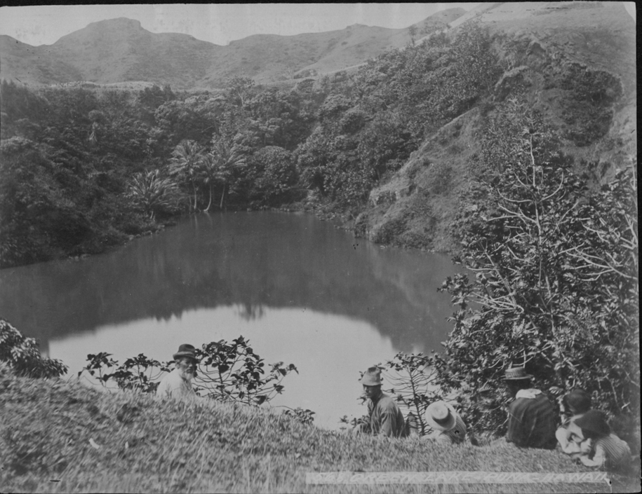 Green Lake, Puna, Hawaii Island. Also known as Ka Wai o Pele.